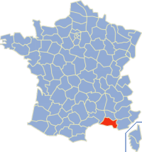 Map of France with highlighted #13 department.